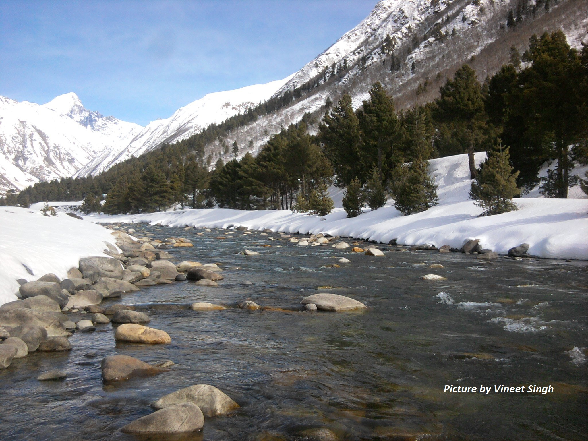 Picture of Baspa river taken in winter while trekking along the river at village Chitkul